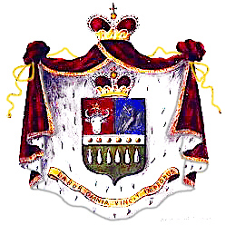 Coat of arms of the Ghica family. Motto: LABOR OMNIA VINCIT IMPROBUS